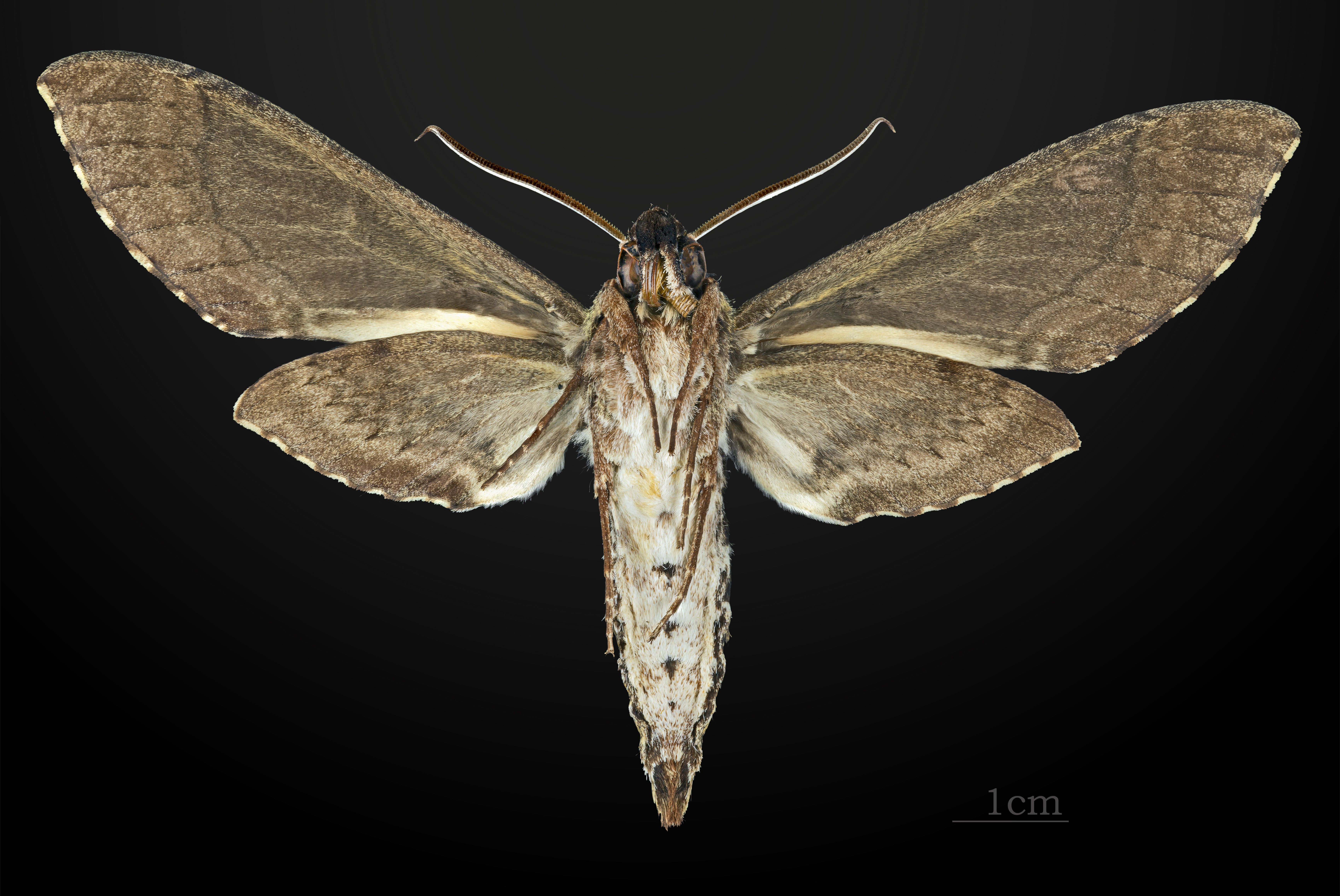 Manduca brasiliensis - △ Ventral side Collection of the Mathematician Laurent Schwartz